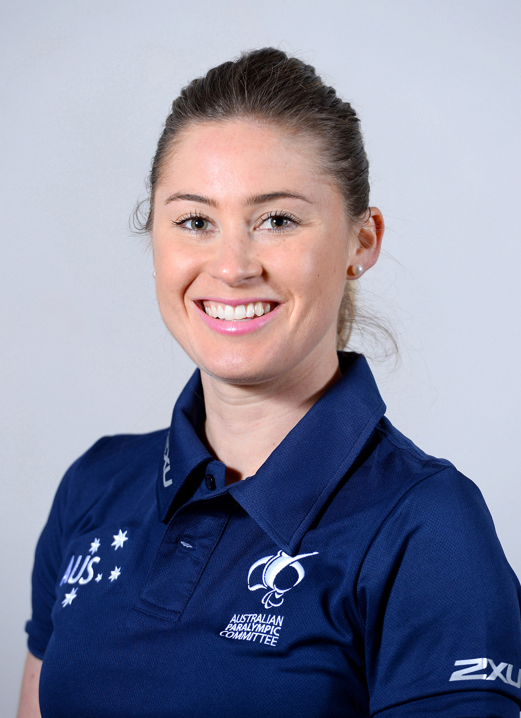 Portrait photograph of Madeleine Hogan taken at team processing session for shadow members of 2016 Australian Paralympic team